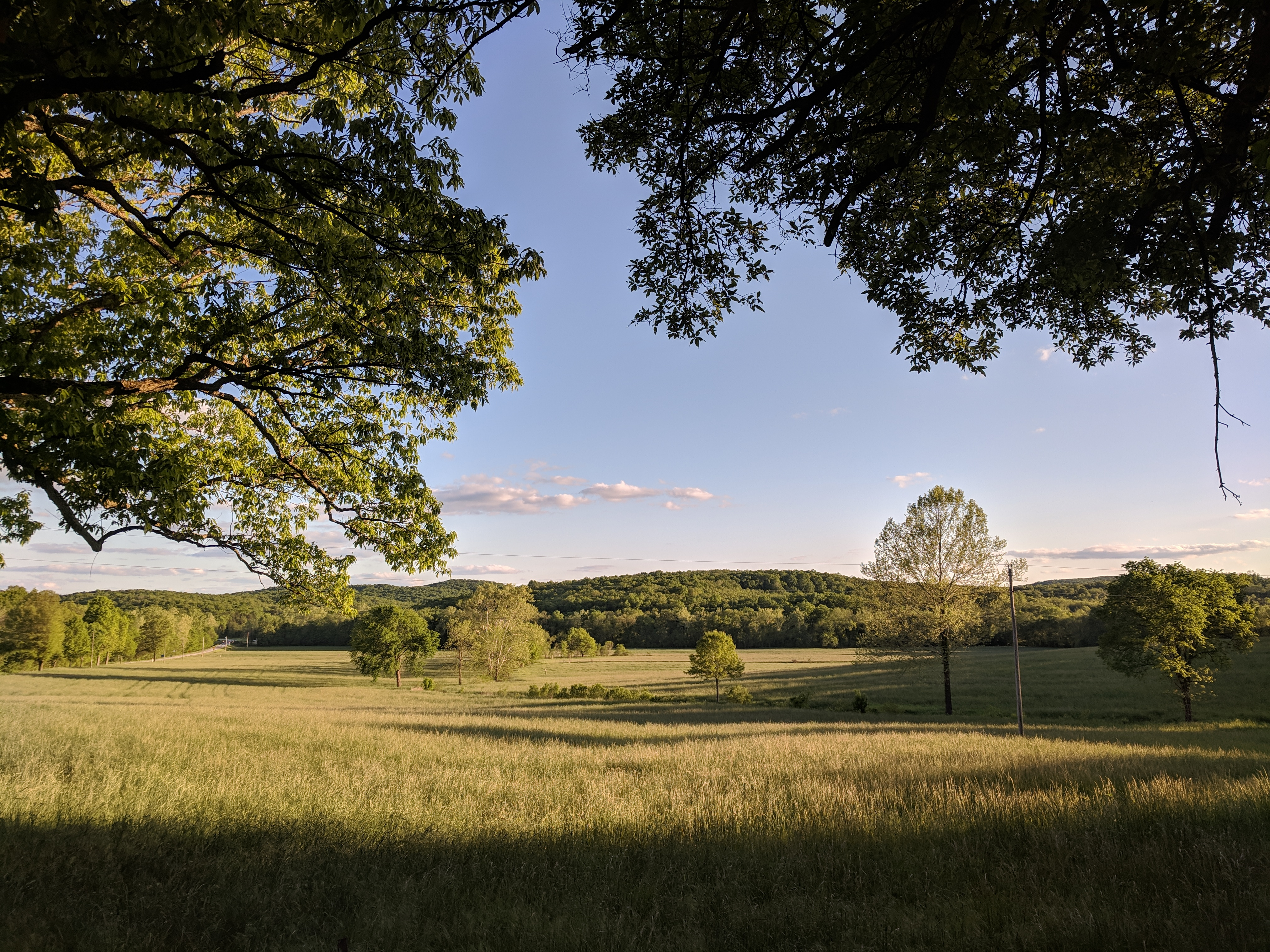 A typical Ozark scene: a bottomland cleared for hayfields between low, rugged hills.